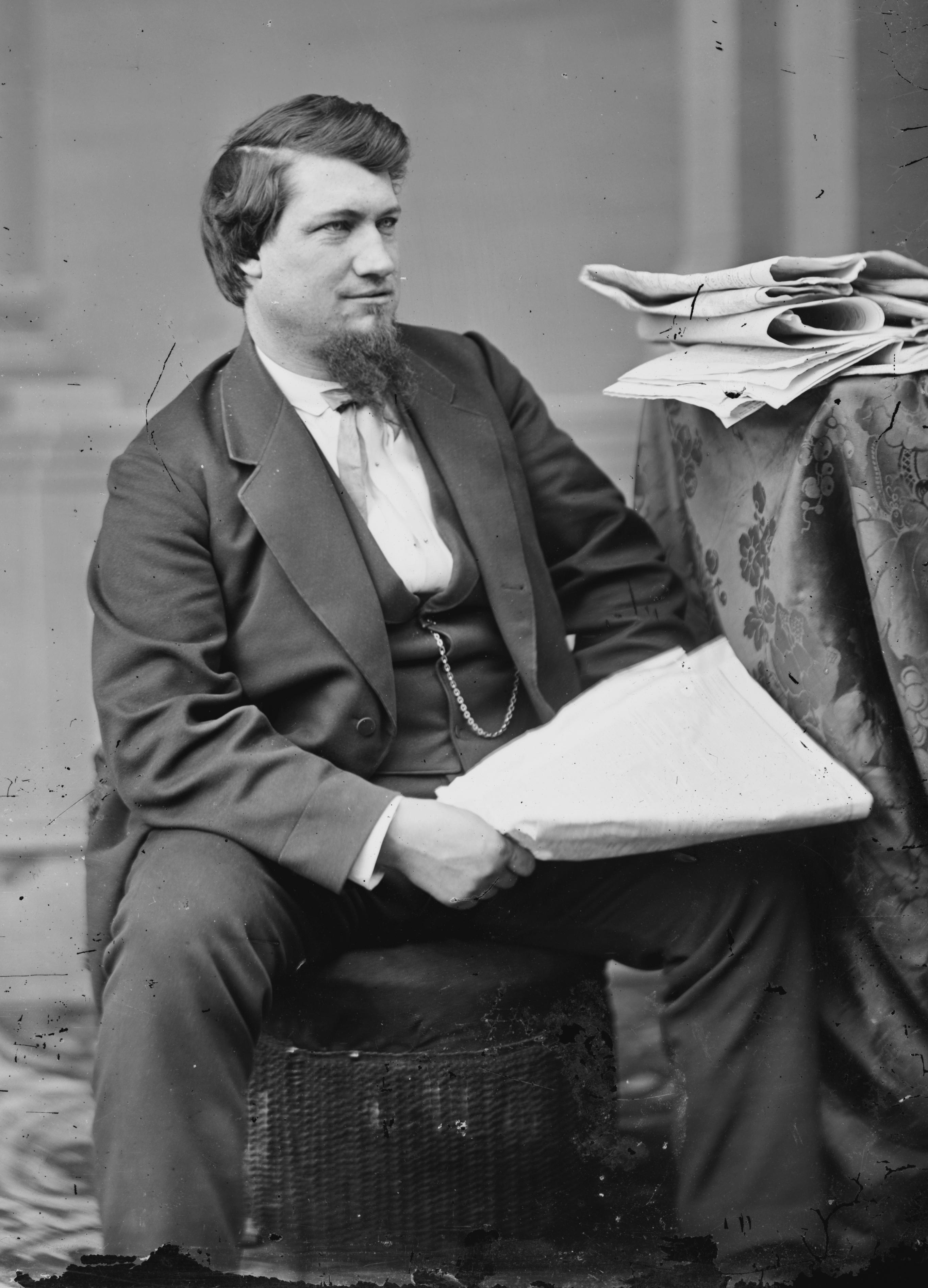 David Ross Locke. Library of Congress description: "Petroleum Nasby".